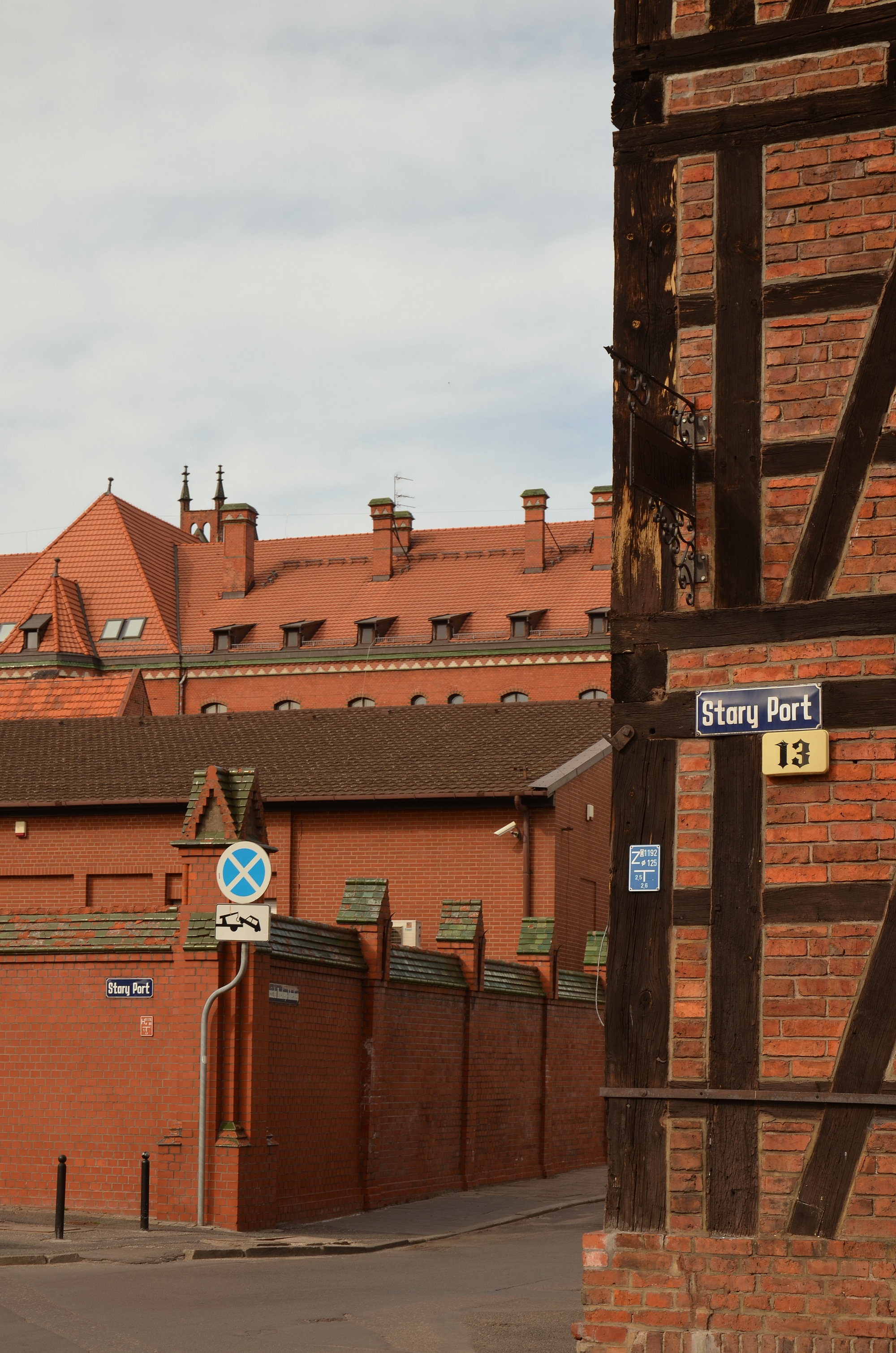 Bydgoszcz, 13 Stary Port Street, intersection with the Franciszek Drucki-Lubecki Street